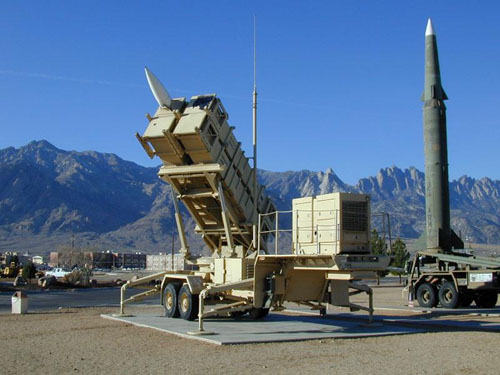 The Patriot was designed to defend against high performance air-breathing targets.